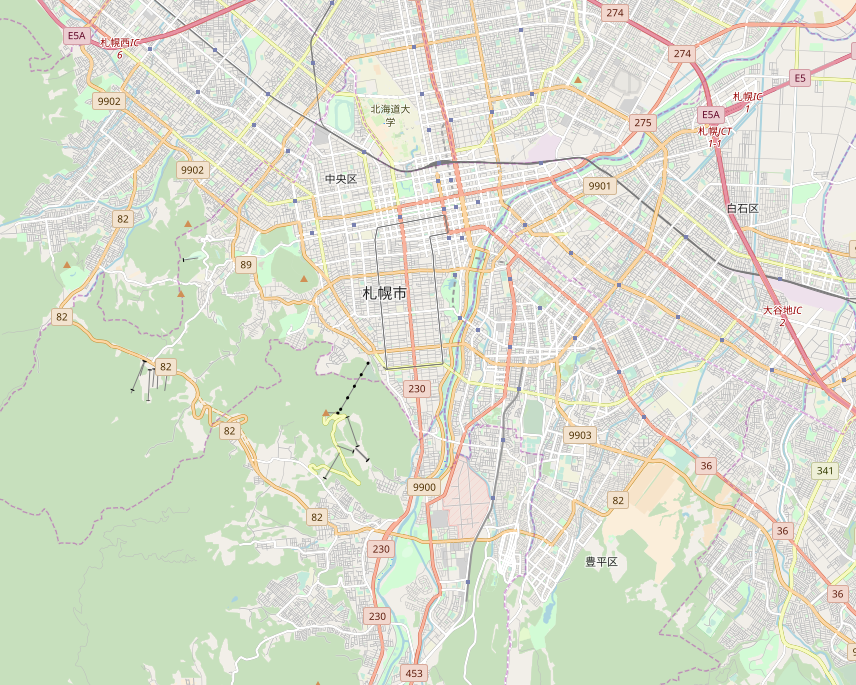 This map of Sapporo was created from OpenStreetMap project data, collected by the community. This map may be incomplete, and may contain errors. Don't rely solely on it for navigation.